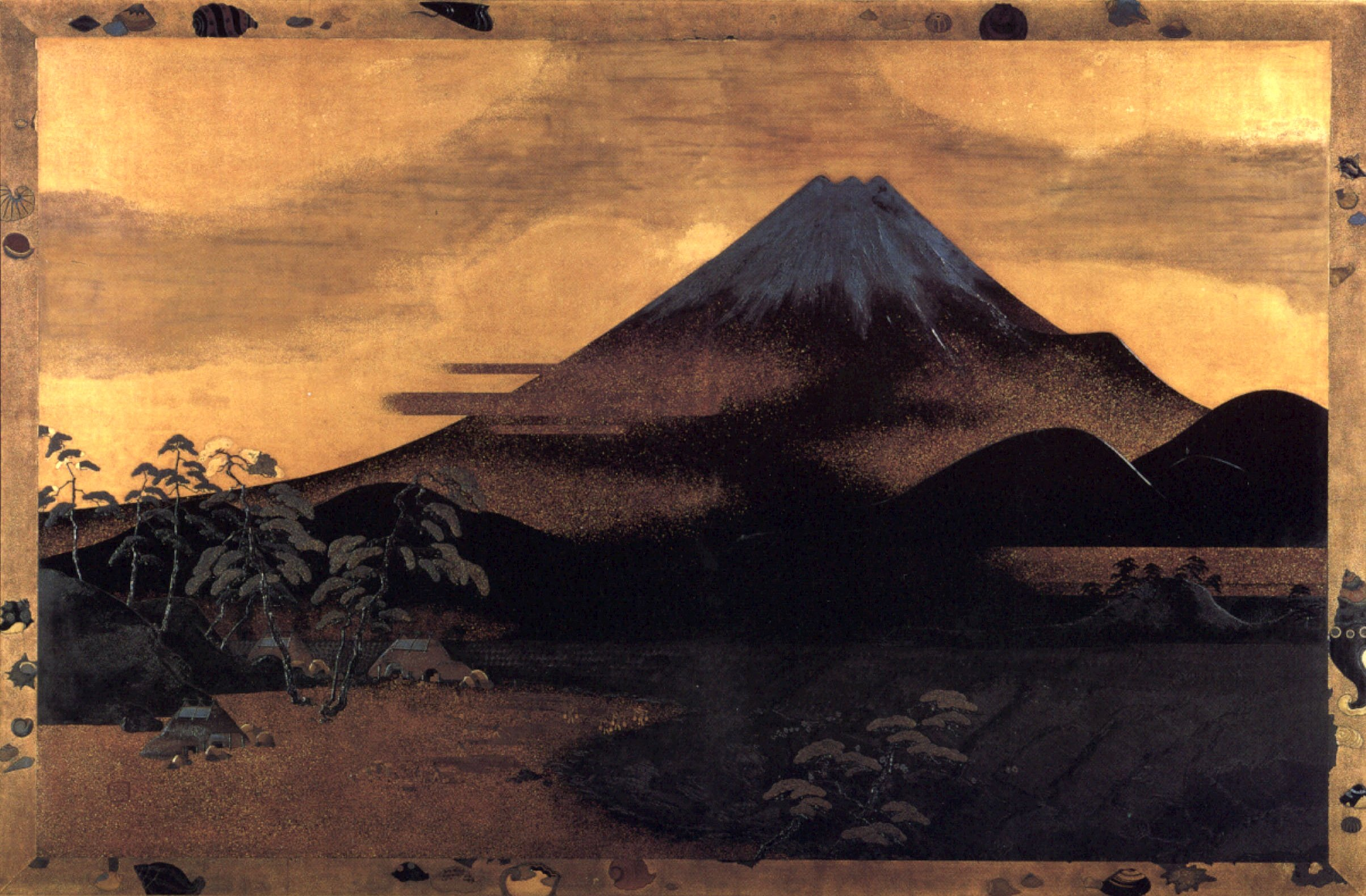 Fuji Tagonoura, maki-e (lacquer) picture by Shibata Zeshin, 1872